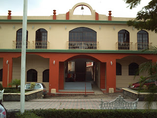 Presidencia de Tantoyuca